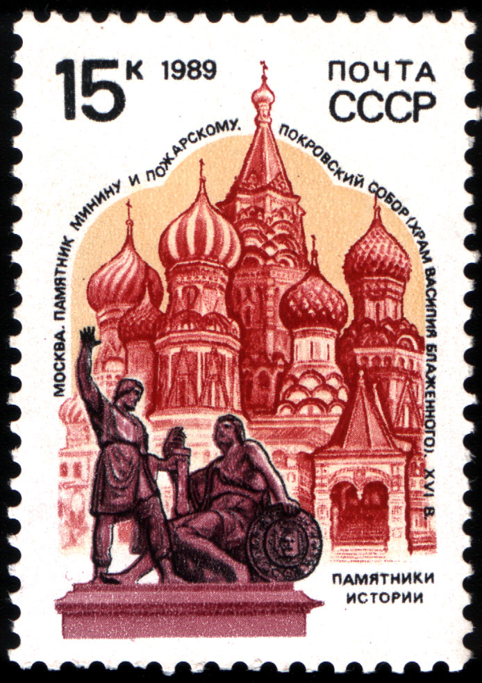 Stamp of USSR, Historical Monuments, St. Basil's cathedral and Minin and Pozharsky statue, Moscow, 1989